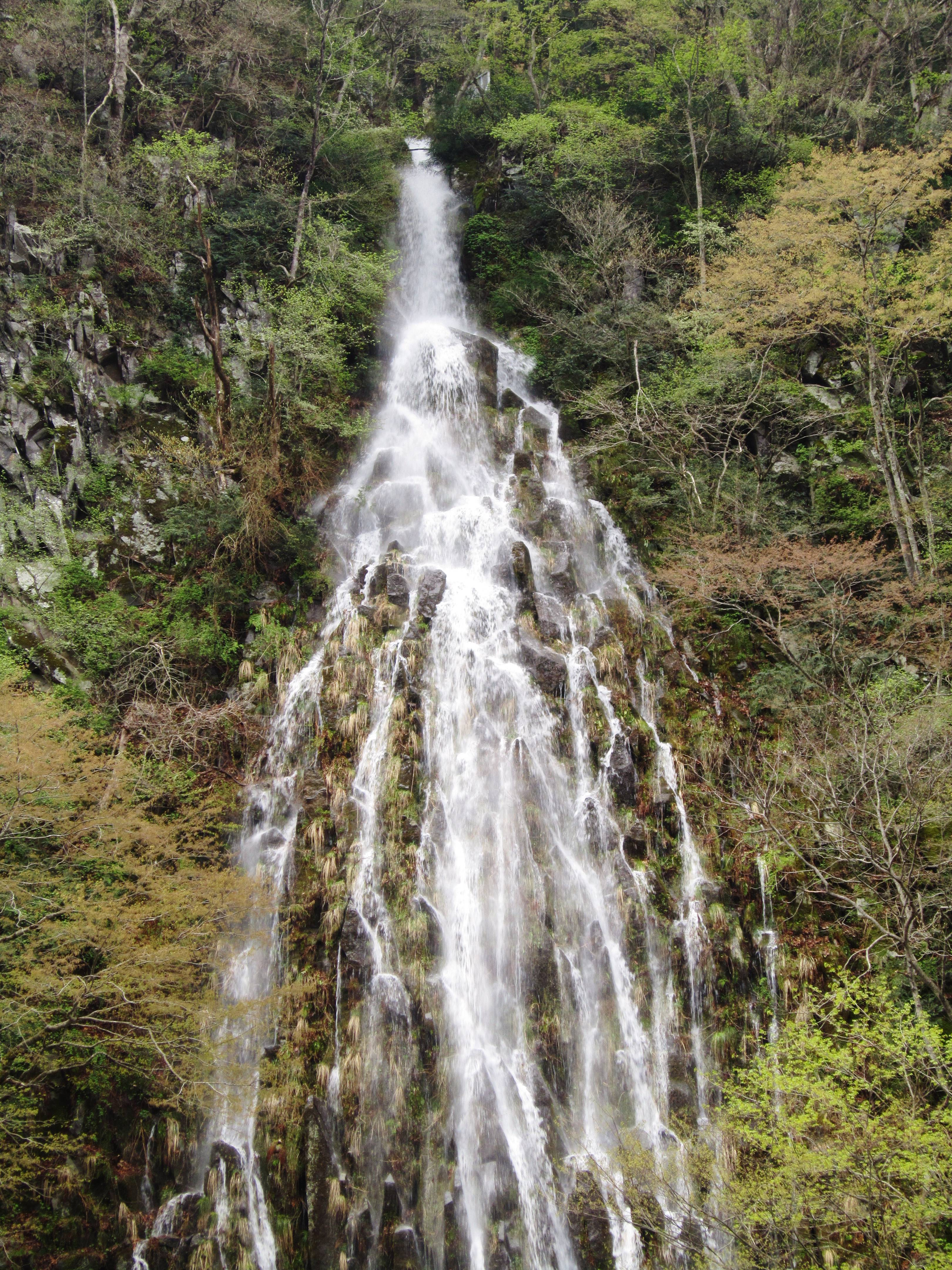 Tarudaki (Maboroshinotaki) Waterfall.